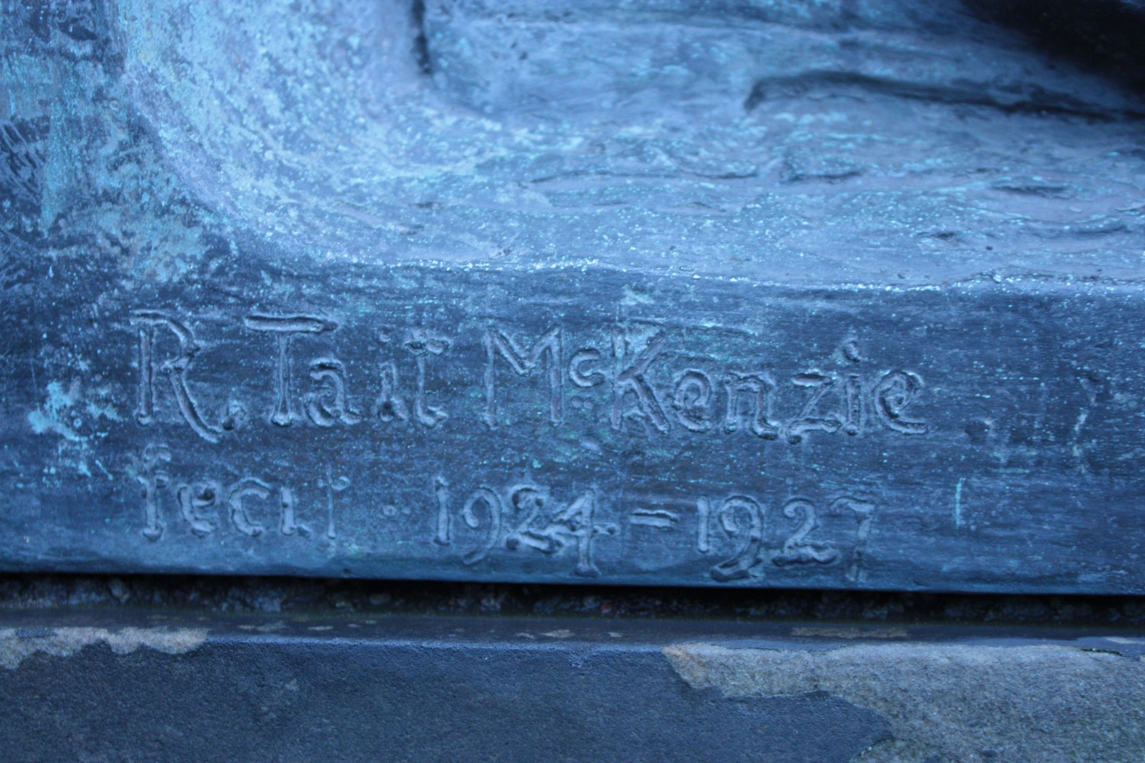 R. Tait McKenzie's signature in bronze on "The Call" in Princes St Gardens Edinburgh.